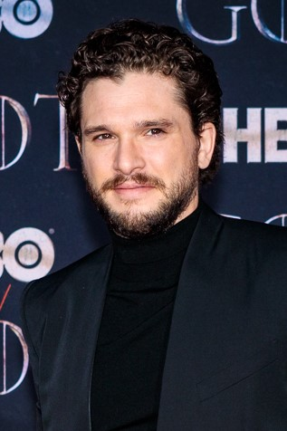 Kit Harrington at the Game of Thrones Season 8 World Premiere at Radio City Music Hall, April 3, 2019. Photo by Sachyn Mital.